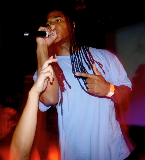 Rapper Substantial performing in 2011